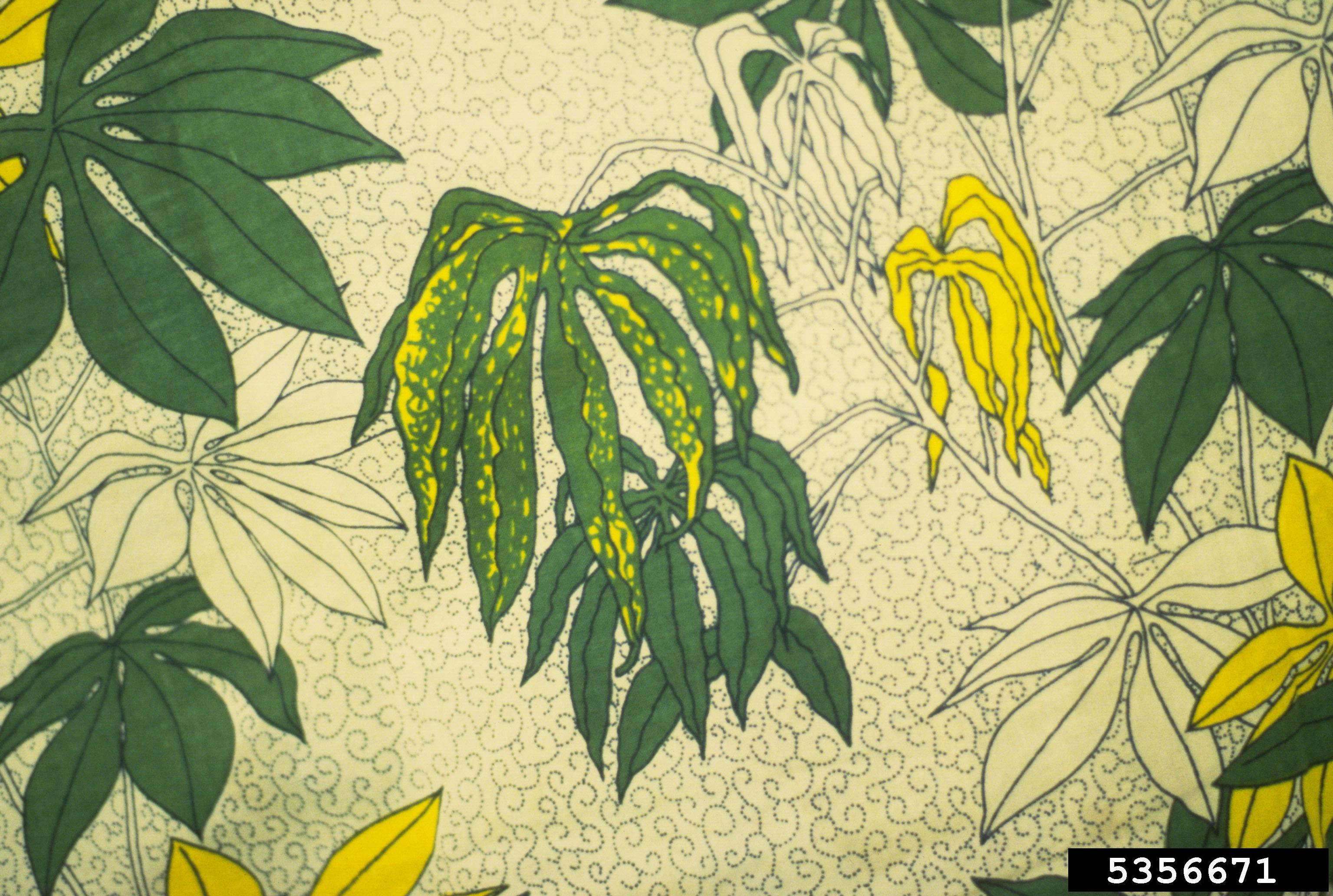 Artistic rendering of Cassava Mosaic Virus - graphic design on fabric in Guinea-Bissau.